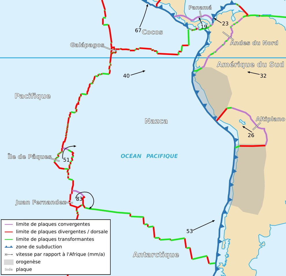 Map of the Nazca Plate